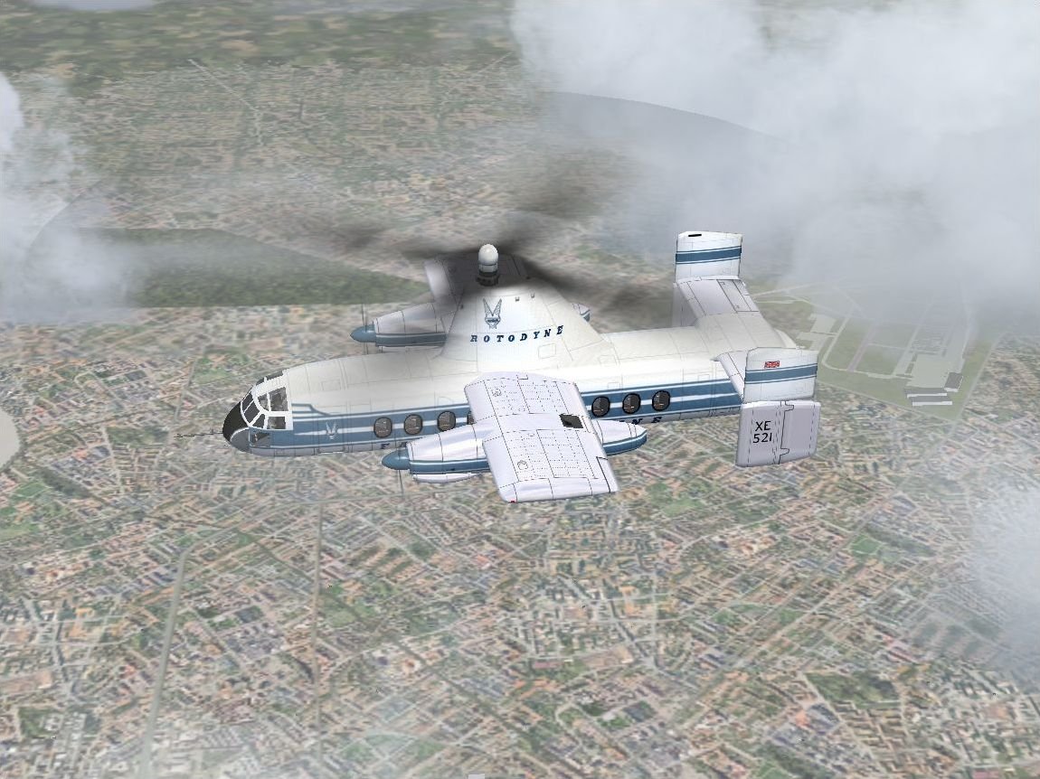 A computer model of a Fairey Rotodyne shown with its main rotor free wheeling why flying above Paris